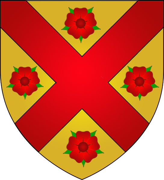 Coat of arms of the municipality of Mondorf-les-Bains, Luxembourg